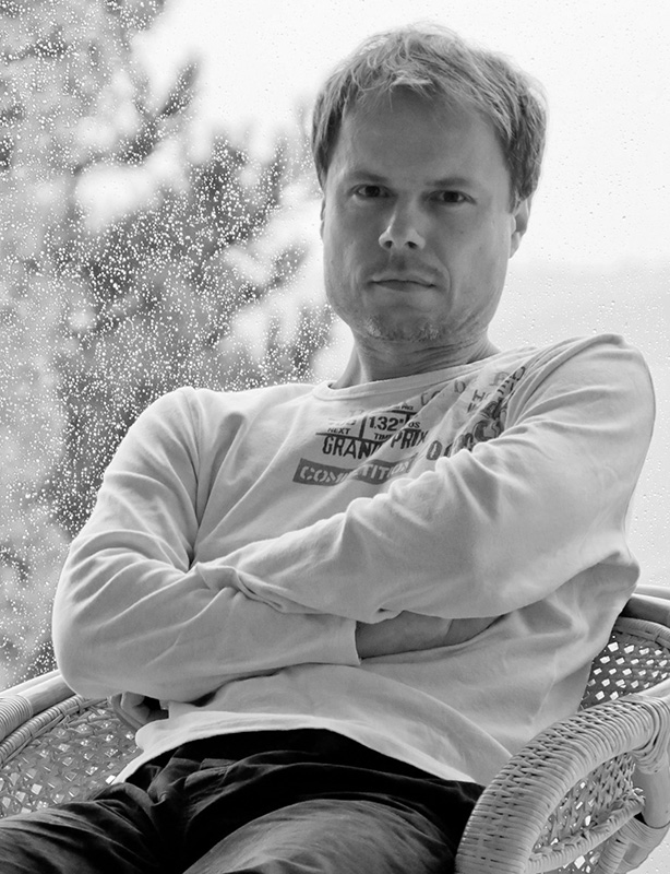 Portrait of Austrian artist Peter Gric.